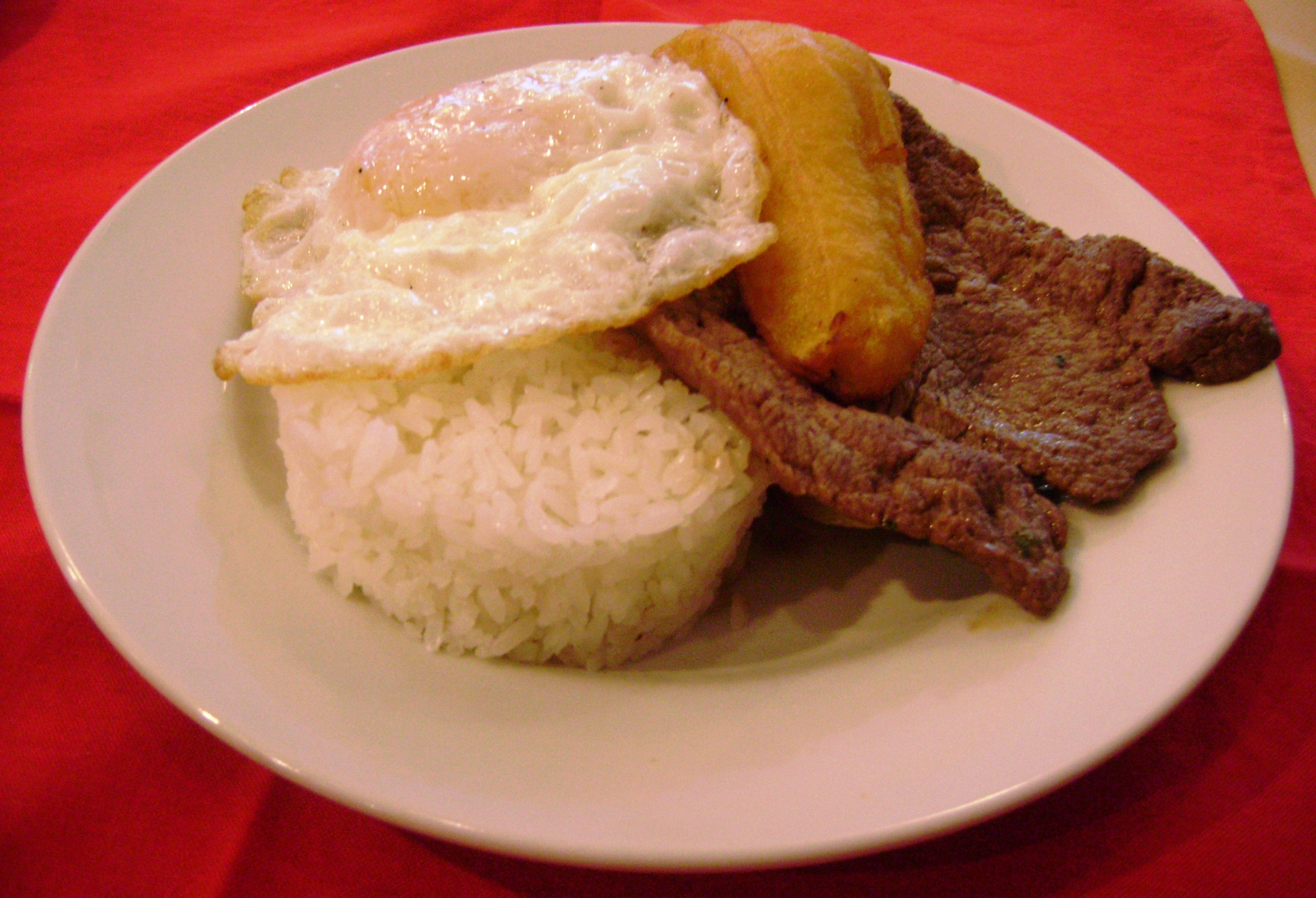 Bisteck a lo pobre. It's Bisteck with rice, fried egg, fried banana and chips (not visible). City of Huaraz, Ancash-Peru.